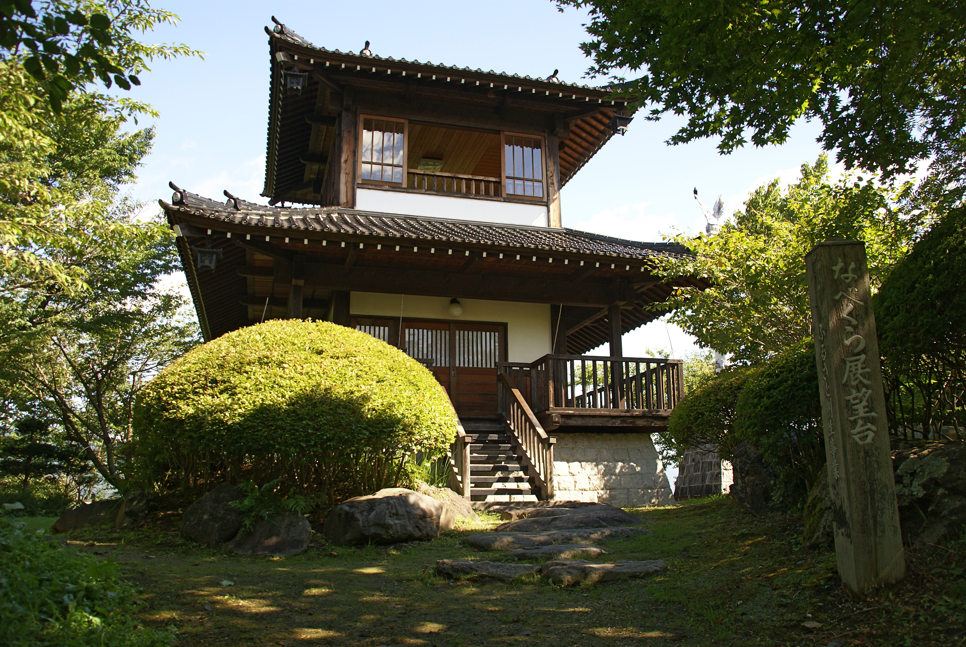 Nabekura Park in Tono, Iwate prefecture, Japan